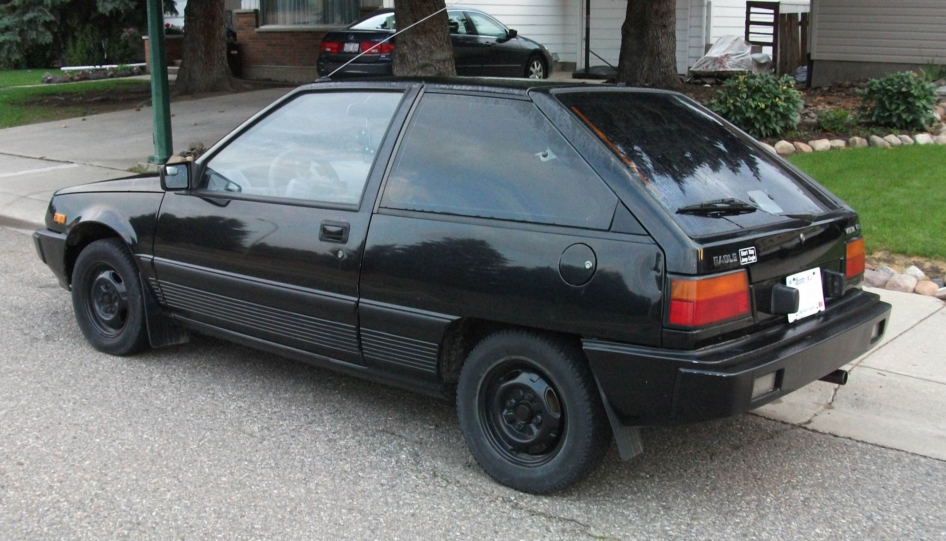 Eagle Vista 1.5 GT - a Canadian variant of the Dodge Colt.